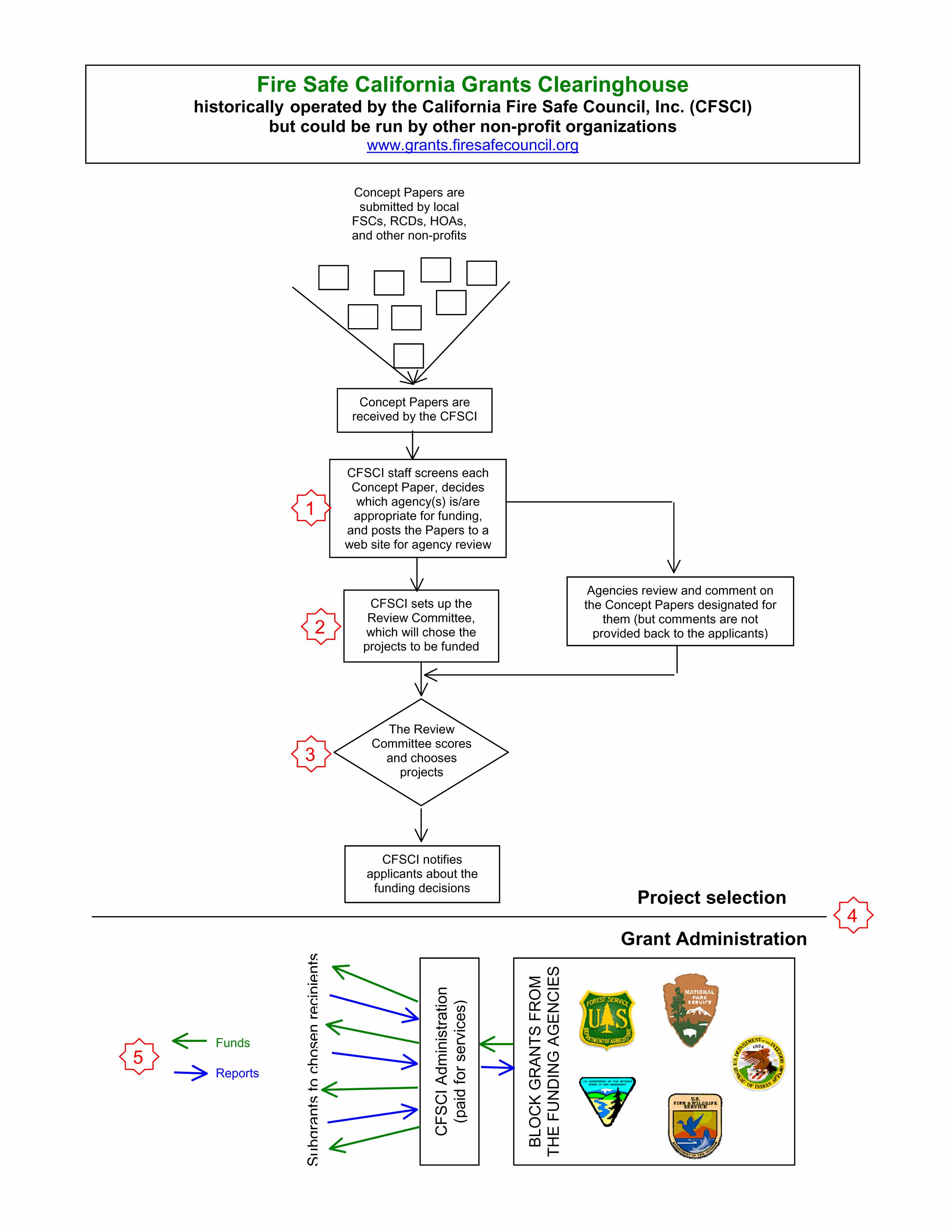 Diagram of how the Fire Safe California Grants Clearinghouse functions